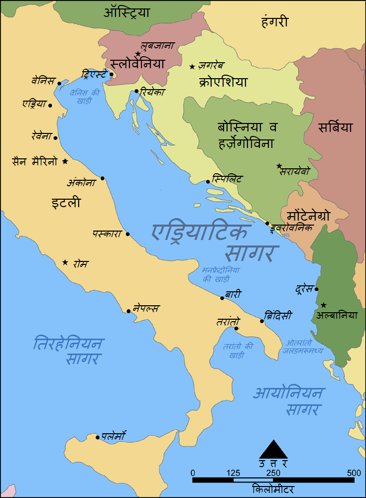 A map showing the location of the Adriatic Sea. Hindi.